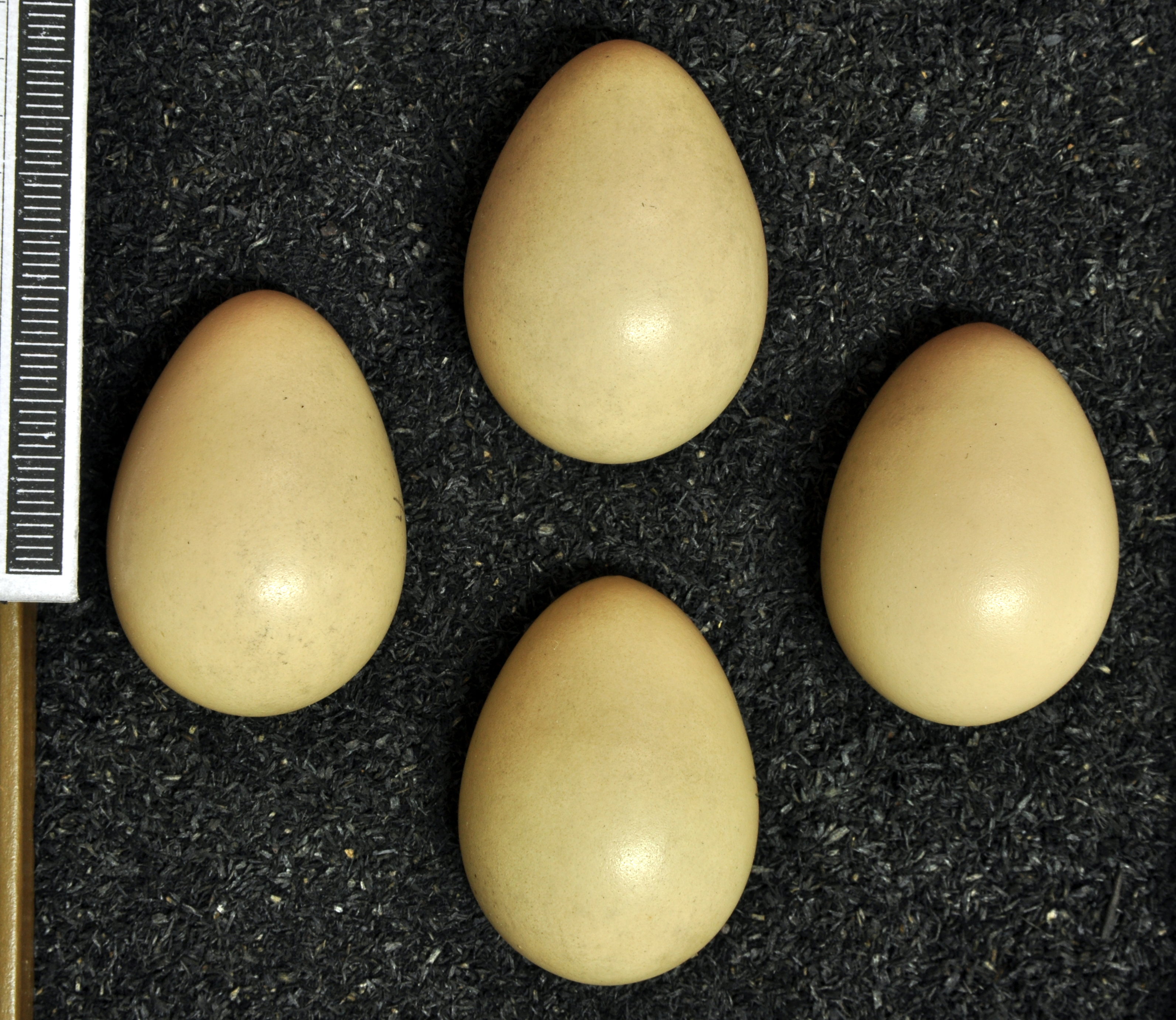 Daurian partridge Perdix daurica , egg, Coll. Museum Wiesbaden